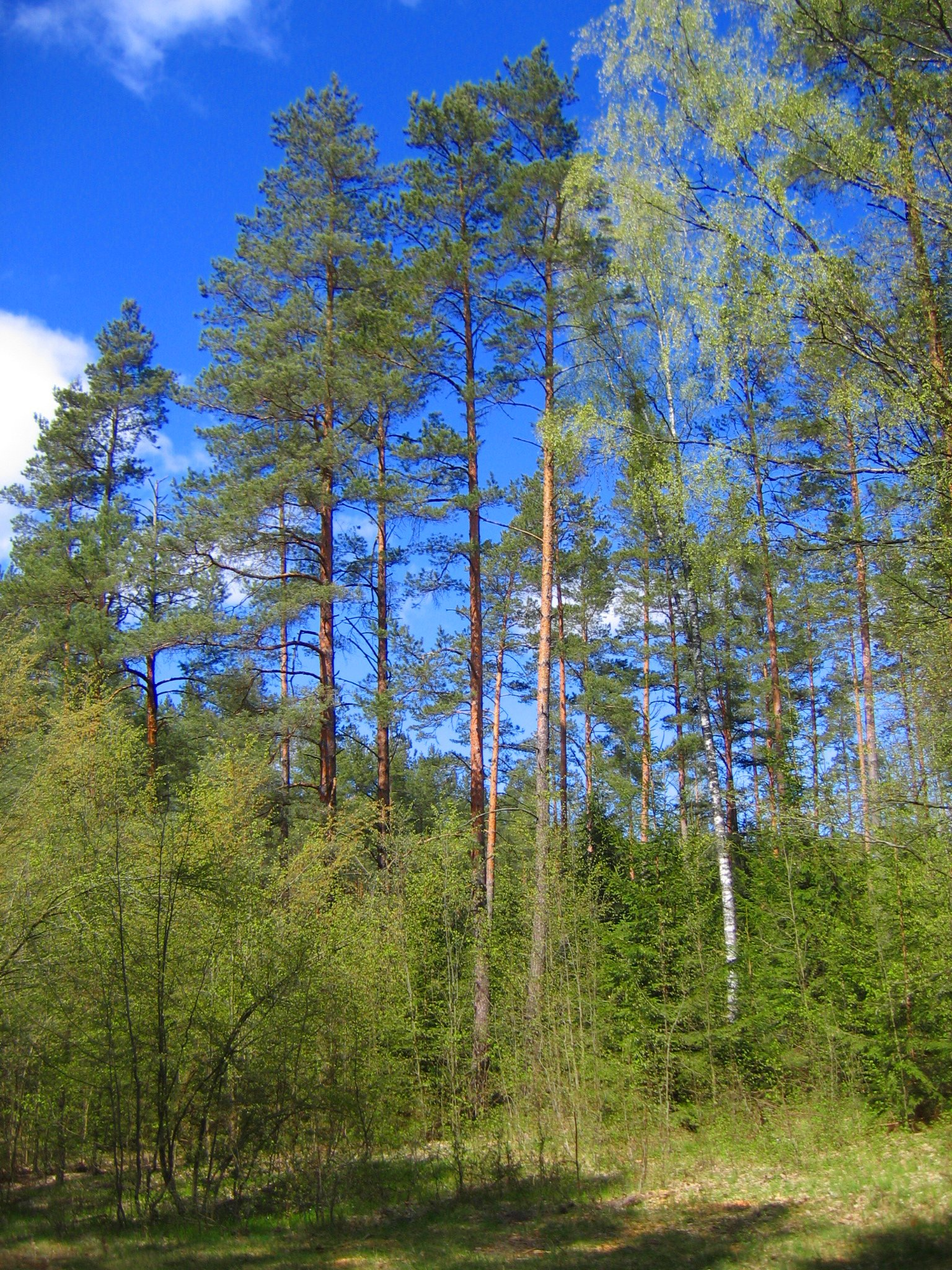 Mixed forest in Białowieża Forest, Białowieża, Poland.